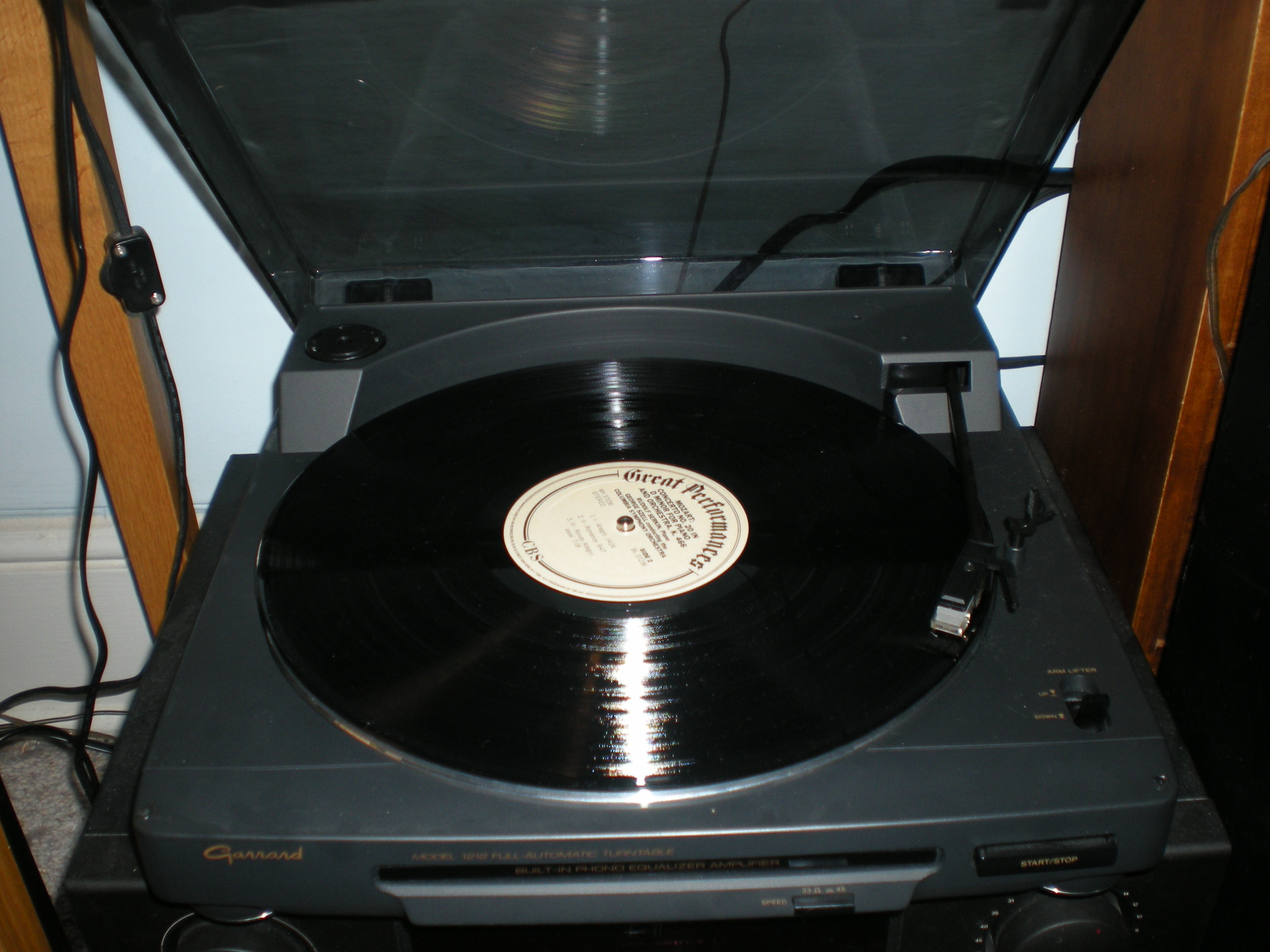 A photograph taken by me of a Garrard Turntable/Record Player, Model 1212.